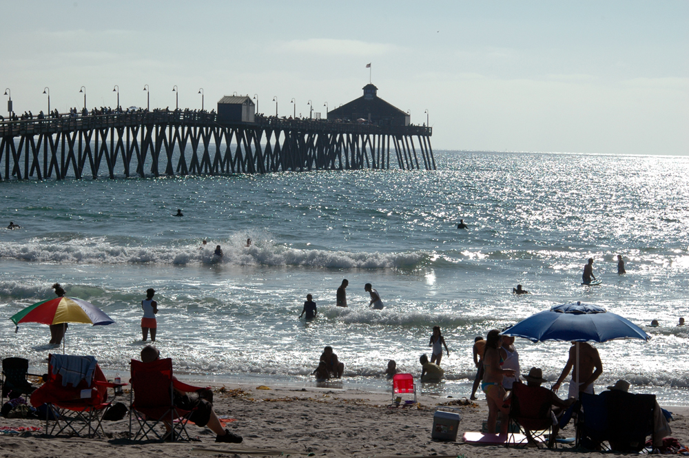 The pier in Imperial Beach, Southern California. South of San Diego, very close to the Mexican border.